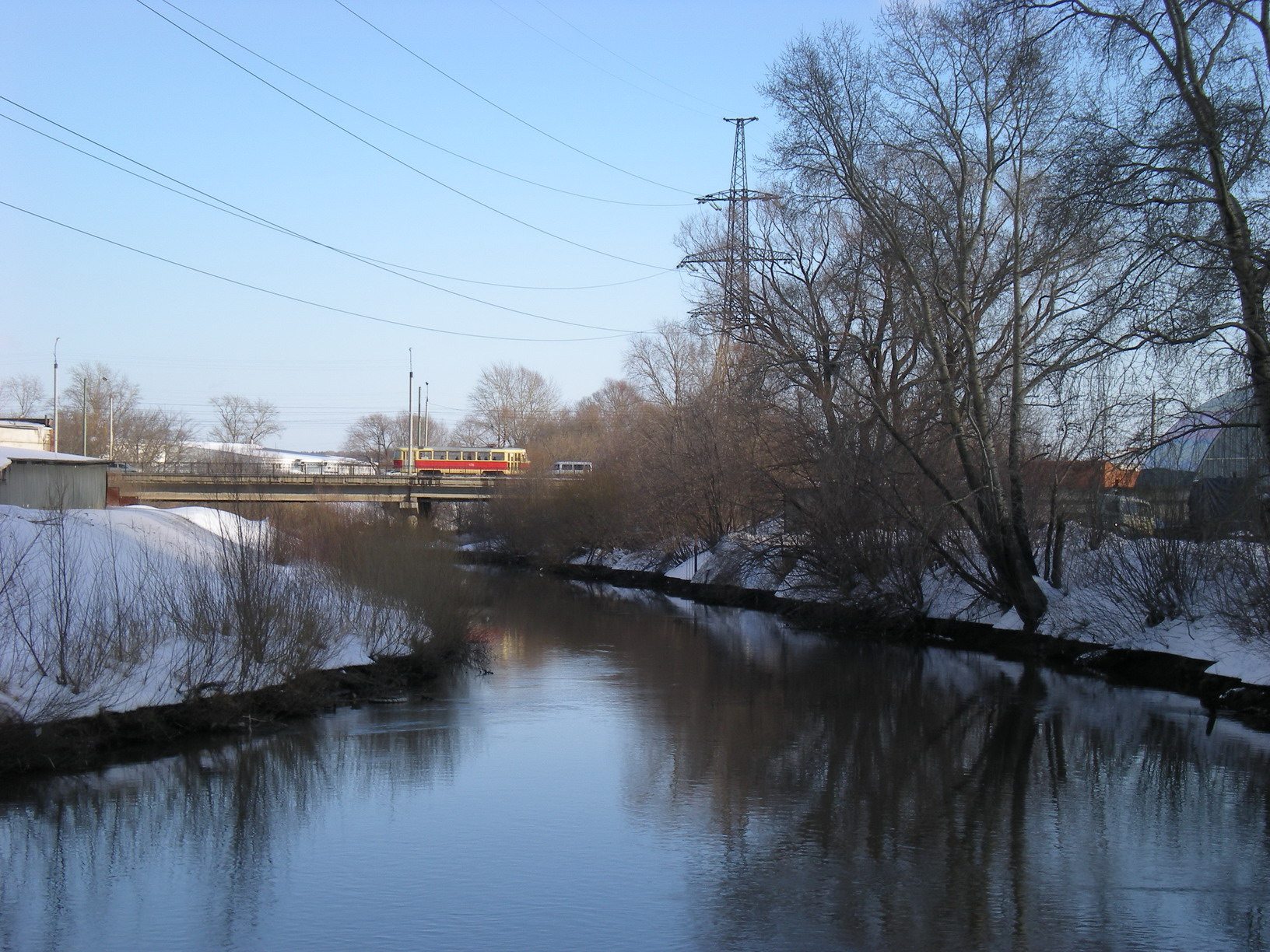 Izh River in Izhevsk, near the bridge in the Magistralnaya StreetУдмурт: Оӵ шур Ижын, Магистральной урамлэн выжезлы матын